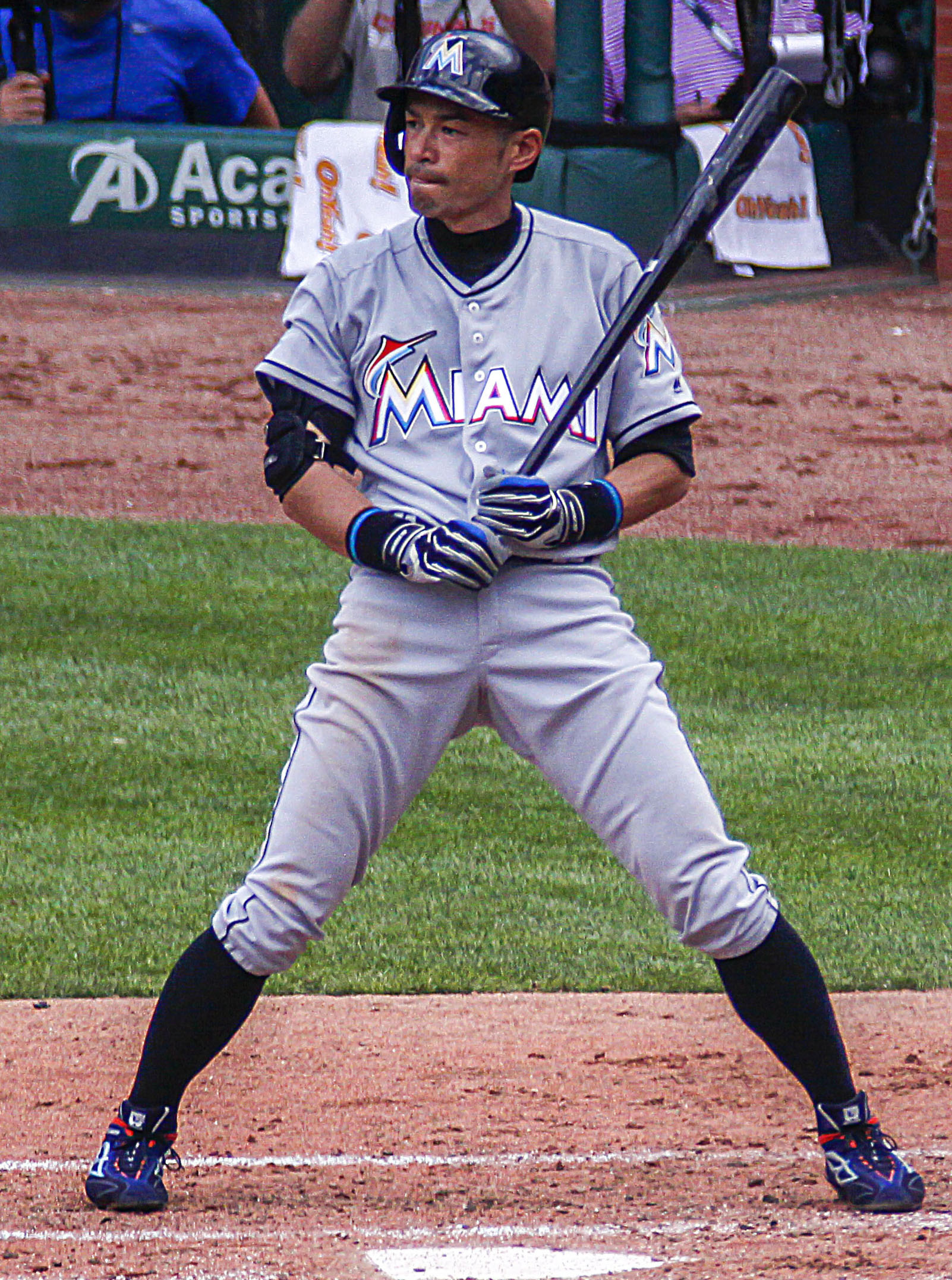 Ichiro Suzuki of the Miami Marlins. In st.louis 2017.